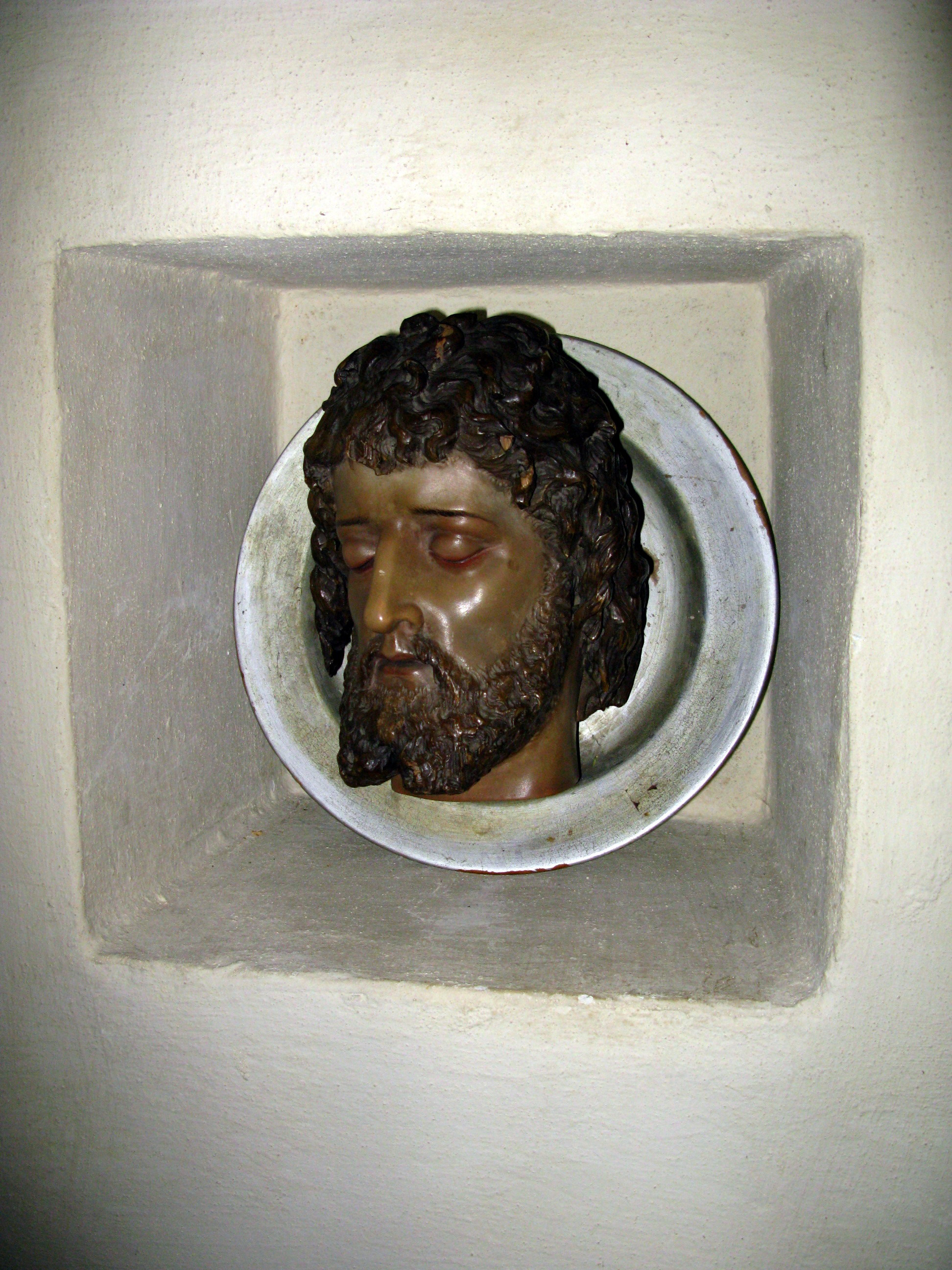 Head of Saint John the Baptist in the church of Obermillstatt church in Obermillstatt near Lake Millstatt (Millstätter See) / Spittal an der Drau / Carinthia / Austria / EU.